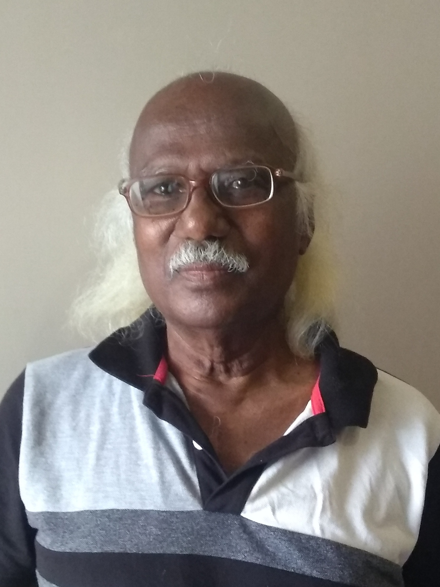 Sa kandasamy சா. கந்தசாமி